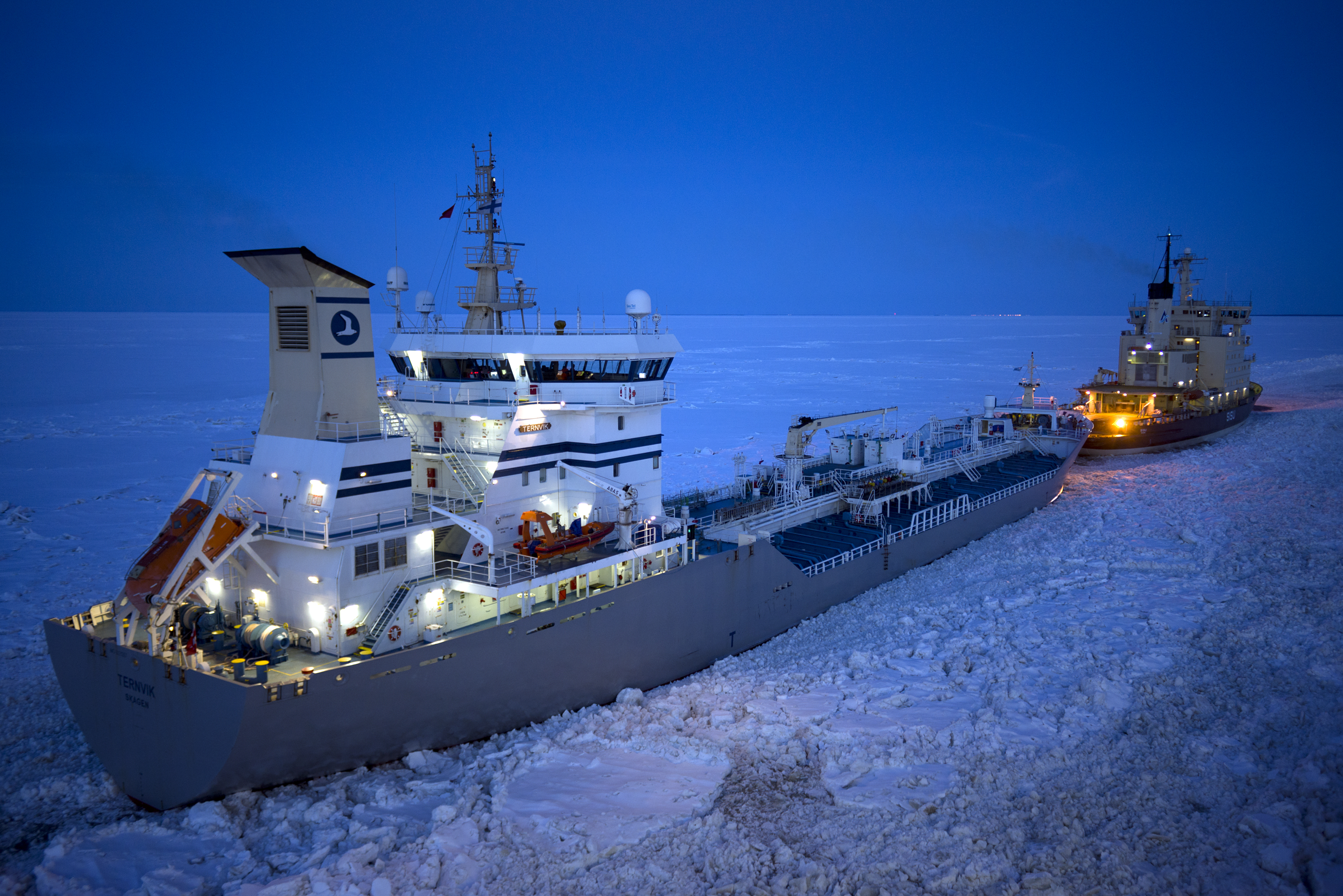 Ternvik (IMO 9221267) escorted to the port of Oulu by Finnish icebreaker Sisu (IMO 7359656).